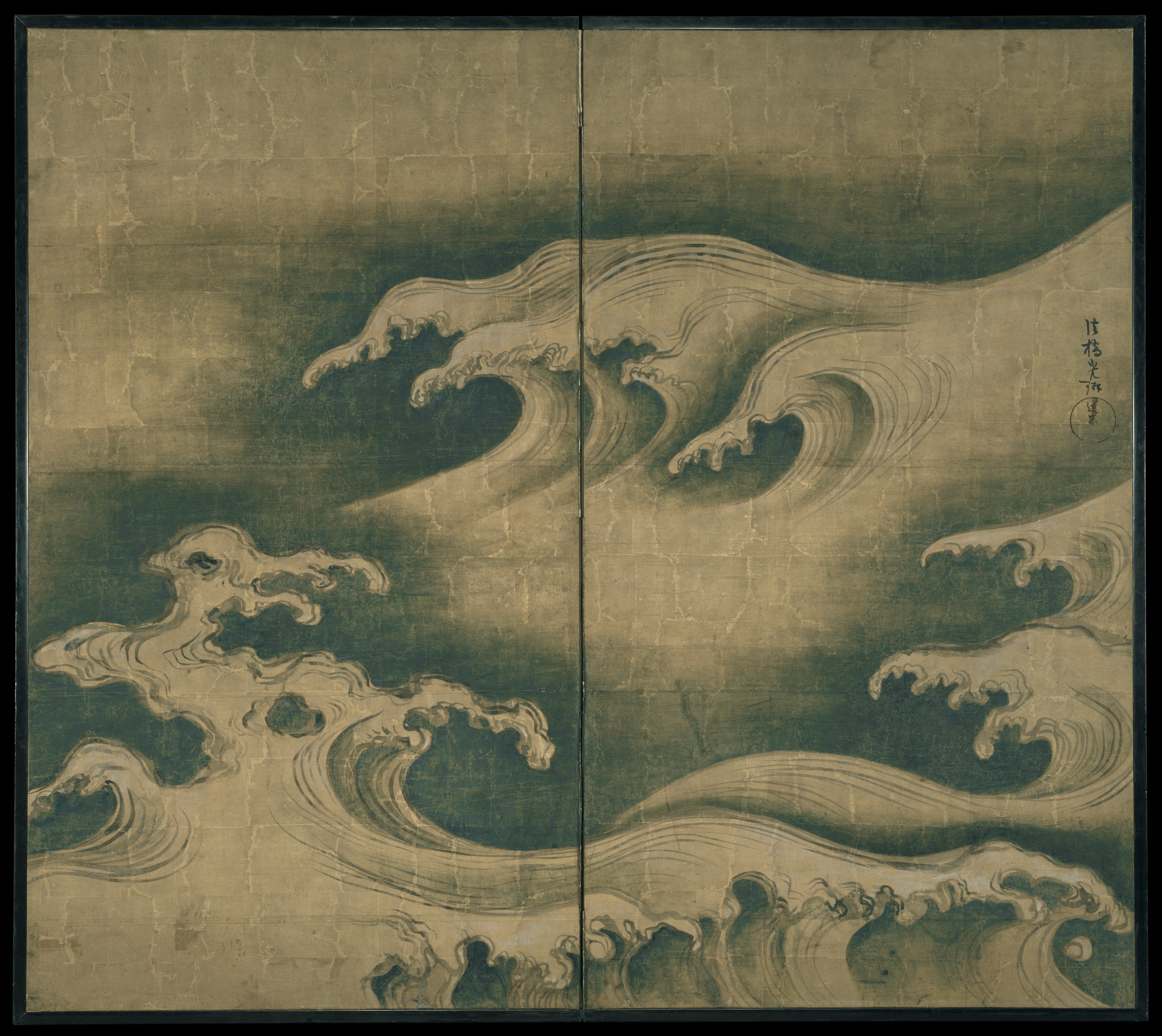 Japan; Folding screen; Screens